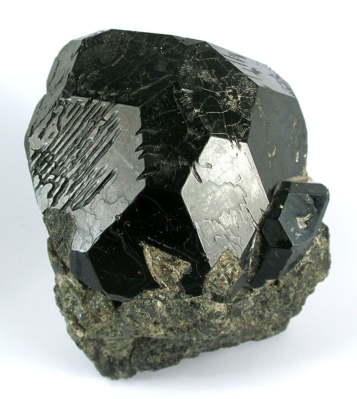 Spinel Locality: Gon Deposit, near Timpton River, Lena River Valley, Aldan, Aldan Shield, (Eastern Siberian, Russia Size: cabinet, 10 x 8.1 x 6.7 cm Spinel This whopper of a spinel crystal is complete all around and free of damage, measuring 8 x 8 x 7 cm in size, and beautifully terminated. It has a rich "satiny" lustre, characteristic of pocket-growth crystals that have never been covered by other rock, or calcite infill which has to be removed with acid. This locality historically produced spinels of this calibre, but I had never seen one of such size and in any case they came out 20 years and more ago. This new find at the same old locale has provided us a small new supply of these spinel classics. What is nice , though, is that the overall quality for this combination of size and crystal habit of spinel has not been surpassed in the meantime - they stand as important spinels, not just as interesting locality classics, in other words. I purchased these at Munich actually, but only recently got them delivered. THIS IS THE LARGEST OF THE NEW FIND, AND WAS ILLUSTRATED IN The Mineralogical Record Munich Show Report, Jan-Feb 2008.